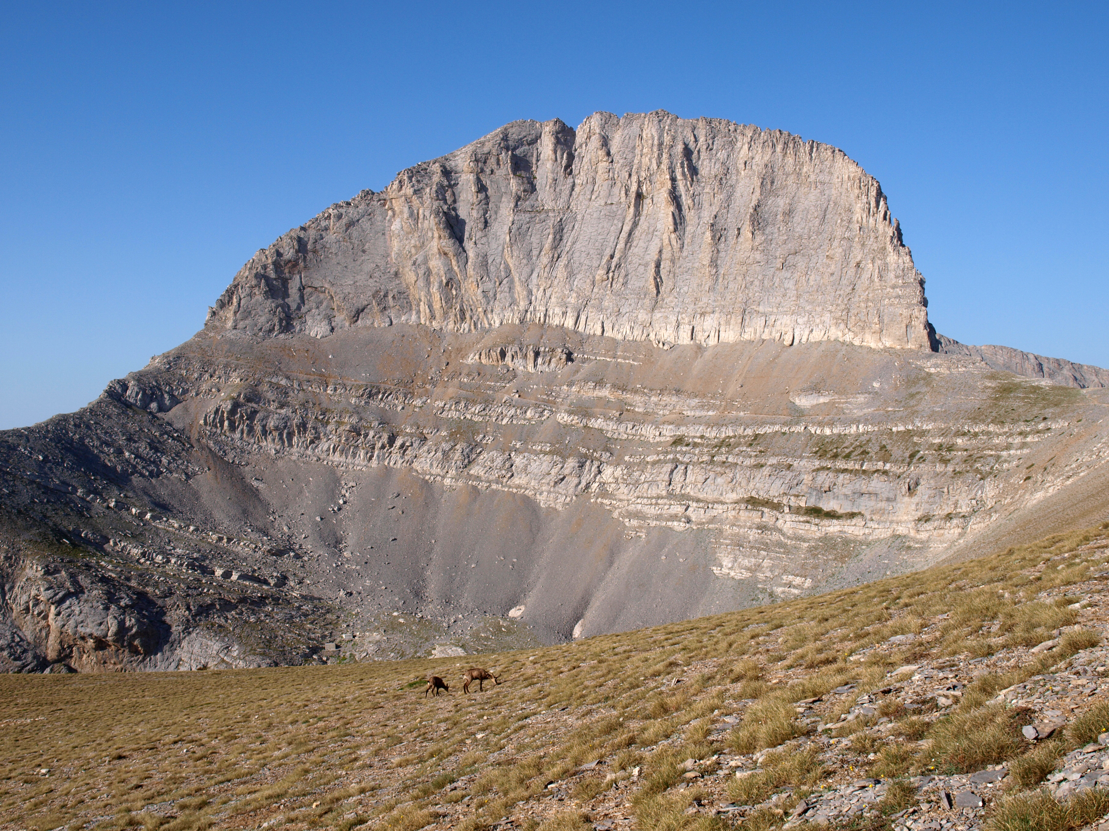 Olympus mountain -stefani and wild goats This is a photography of Natura 2000 protected area with ID GR1250001